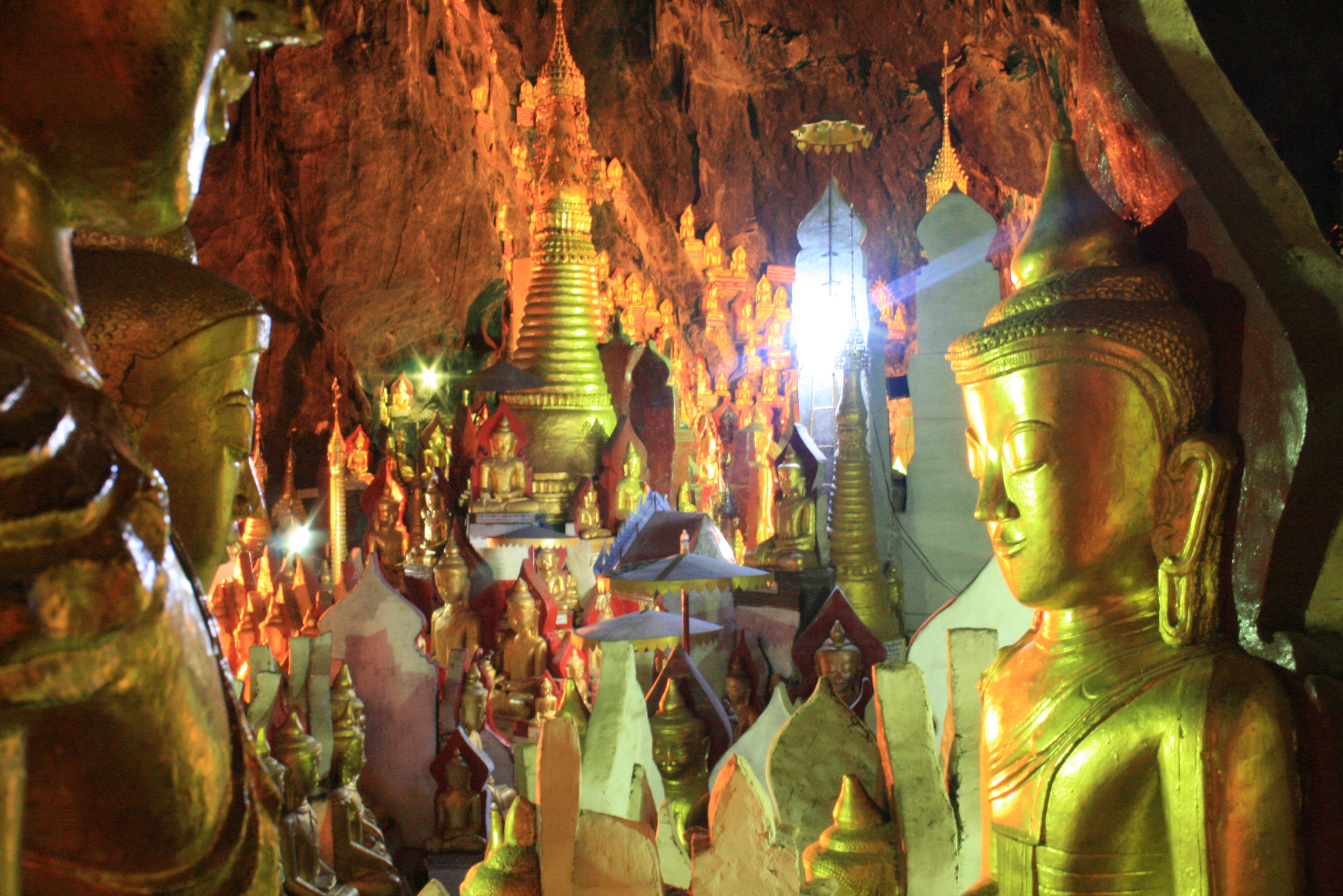 An internal shot of the Pindaya Caves